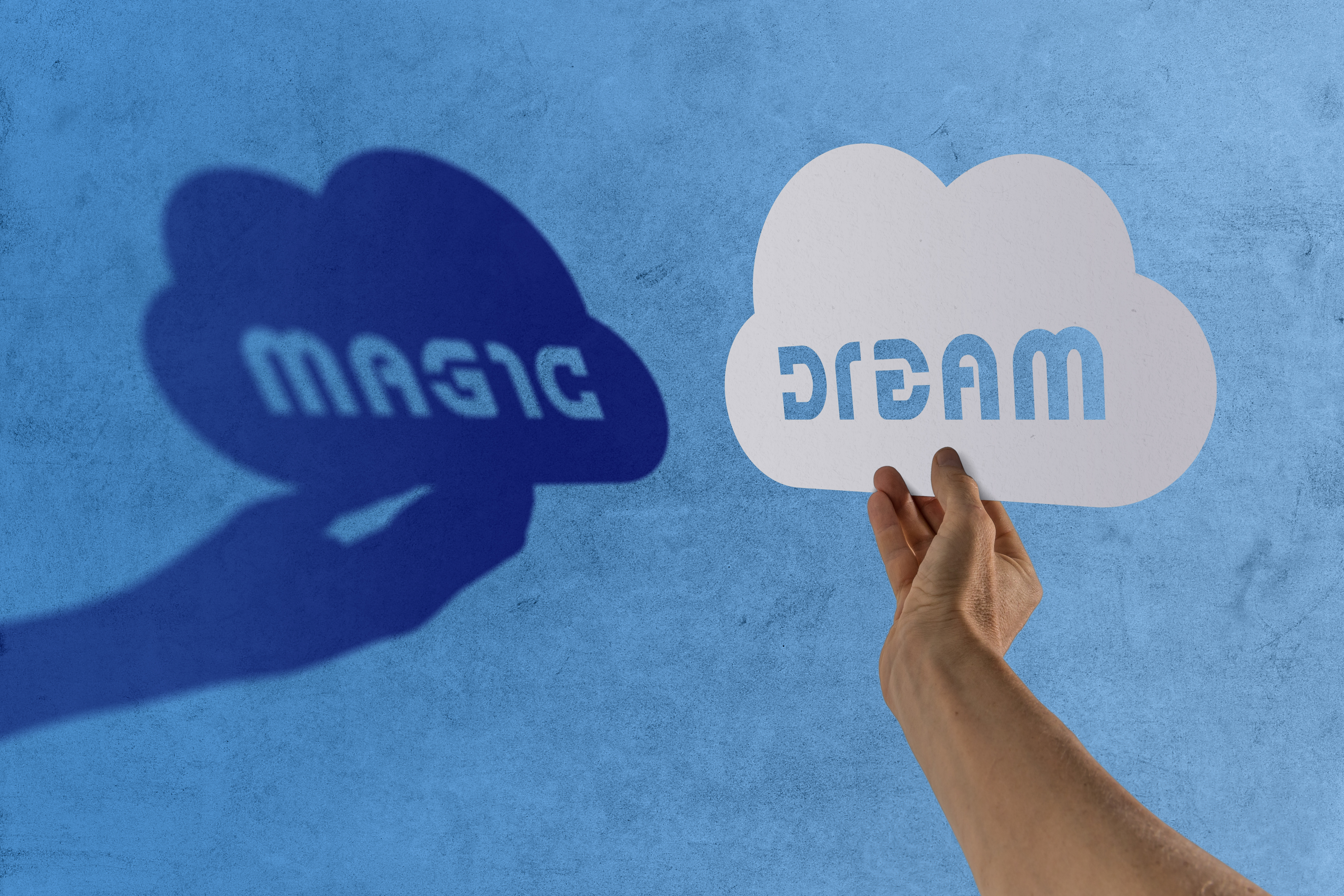 Ambigram Magic / Dream. Mirror symmetry (vertical axis) with a handheld pattern giving a reversed shadow on a blue wall. There is an expression, "it's all done with smoke and mirrors", used to explain something baffling. On the right, a human hand holds a white cloud of paper with holes as letter shapes. Contre-jour photograph, where the word "Dream" cut out within the cloud filters the sunlight to produce a symmetrical shadow on the left, displaying the word "Magic" on a wall. The blue background evokes the sky. Here the trick is immediately revealed through the photography, however it is totally possible for a conjurer to use the hollow pattern in the cloud of paper, to delude spectators. Mise en abyme is a formal technique of placing a copy of an image within itself, often in a way that suggests an infinitely recurring sequence (kind of self-reference). Magical magic ✨️ :-)